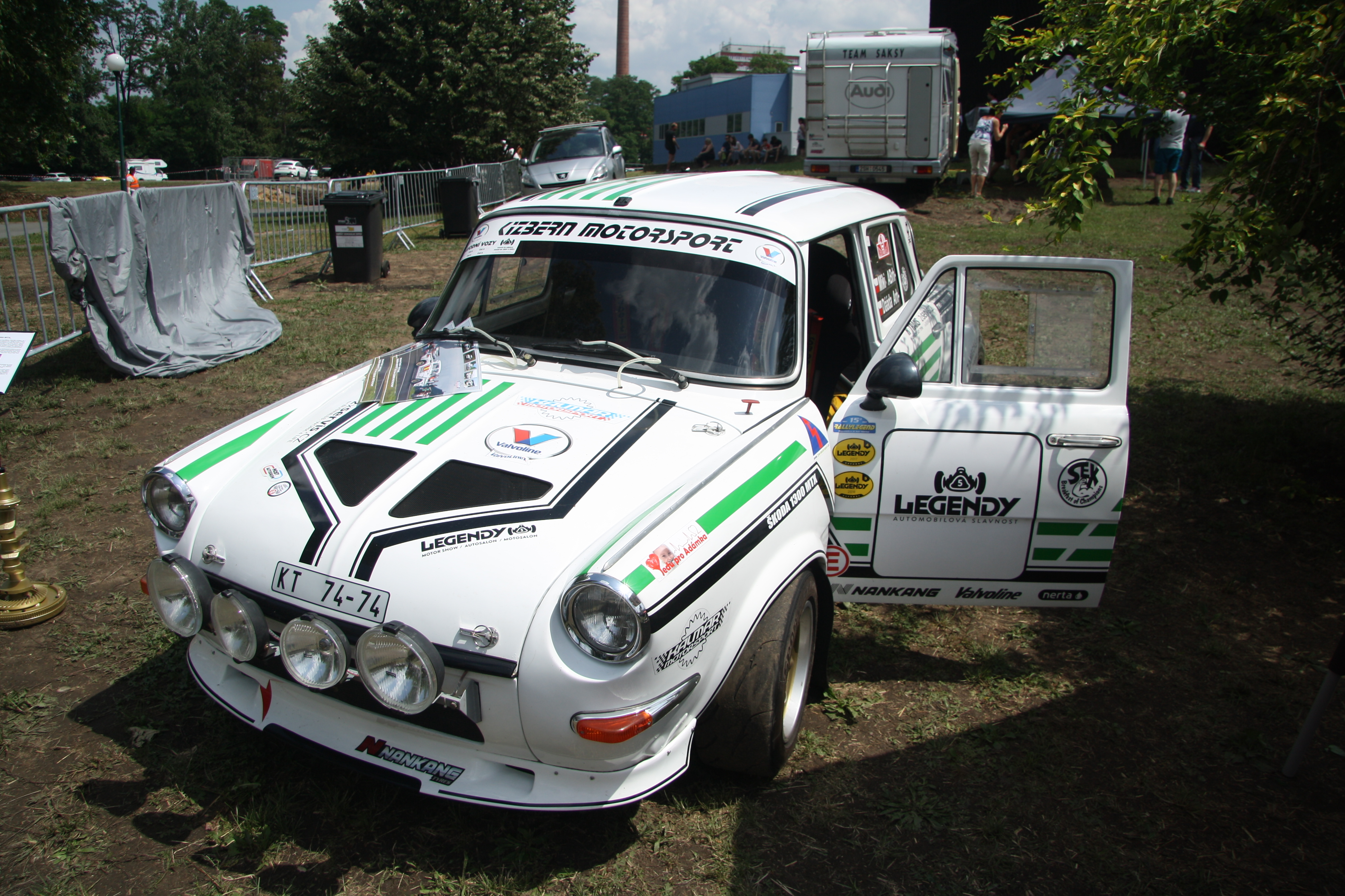 Škoda 1300 MTX (replica of Škoda 1000 MB MTX) at Legendy 2018 in Prague.